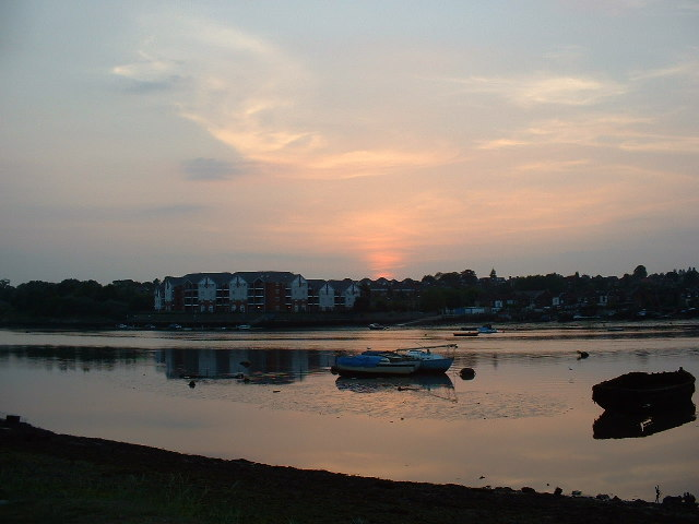 River Itchen, Bitterne Manor. Looking North West across the River Itchen from Bitterne Manor Park, off Northam Road.